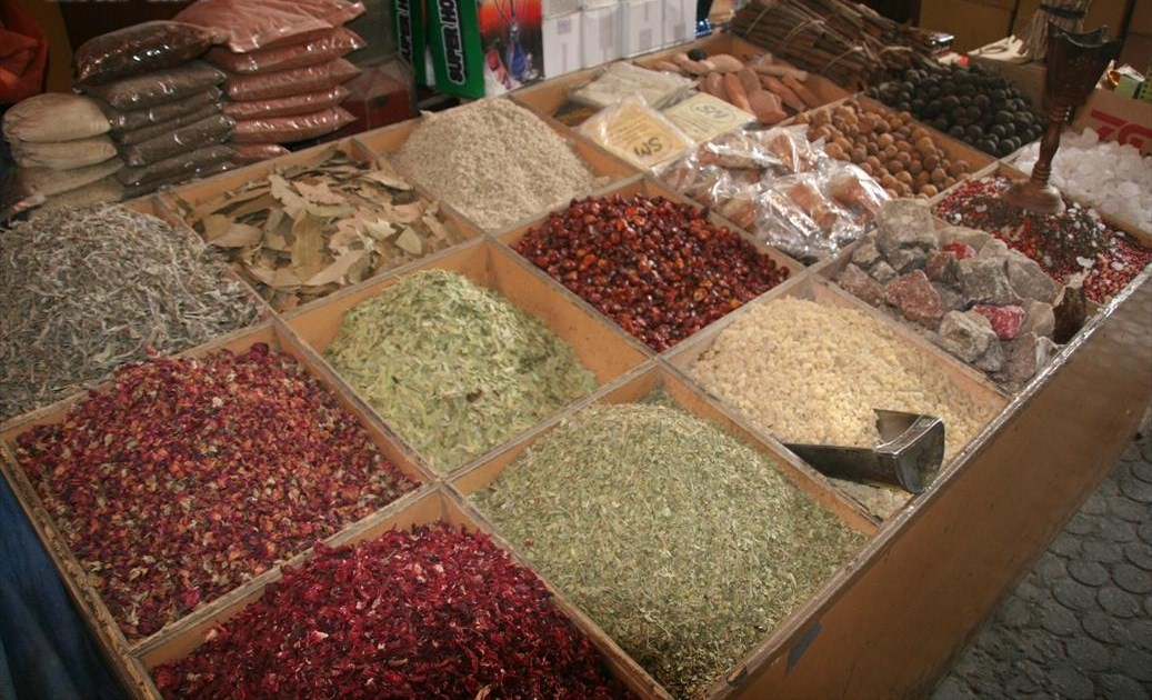 This is a photo of spices in a souk in Deira, Dubai, United Arab Emirates on 9 May 2007.